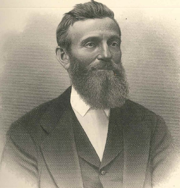 Delos L. Filer portrait 1879